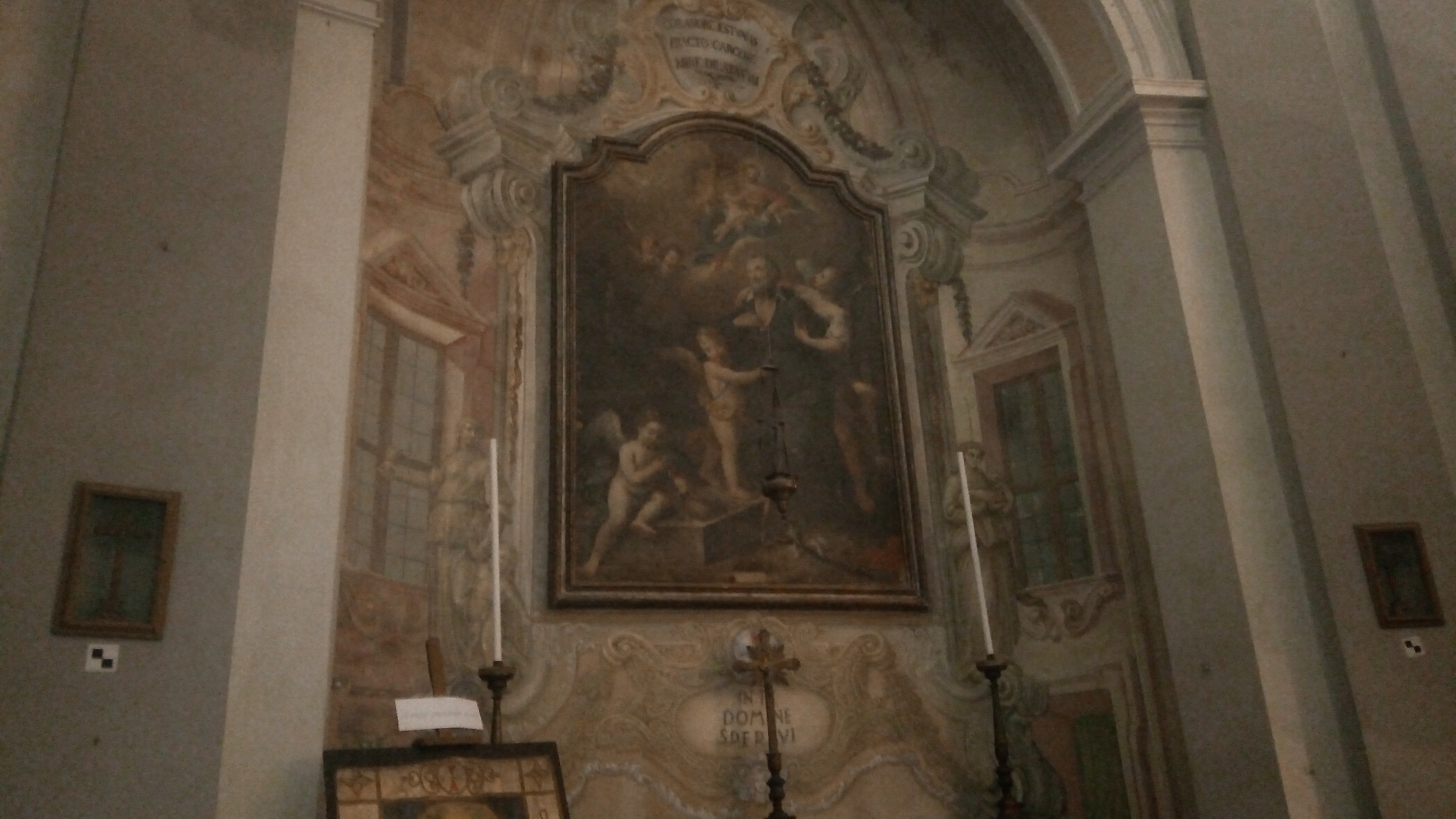 Oratorio del riscatto curch